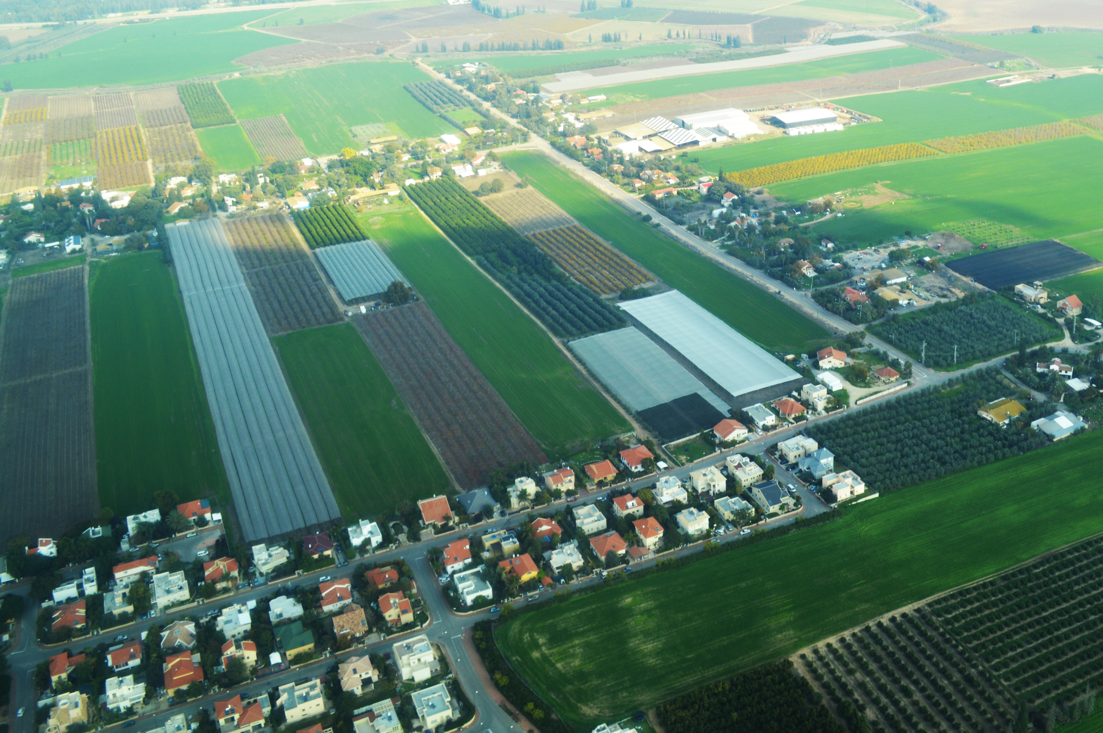 Kidron Aerial View